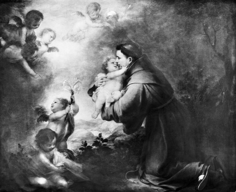 'Saint Anthony of Padua with the Christ Child', by Murillo, ca. 1670-1680. The painting was destroyed or disappeared in Berlin in May 1945, in the Friedrichshain flak tower fire. - Dimensions: 165 x 200 cm - Oil painting on canvas